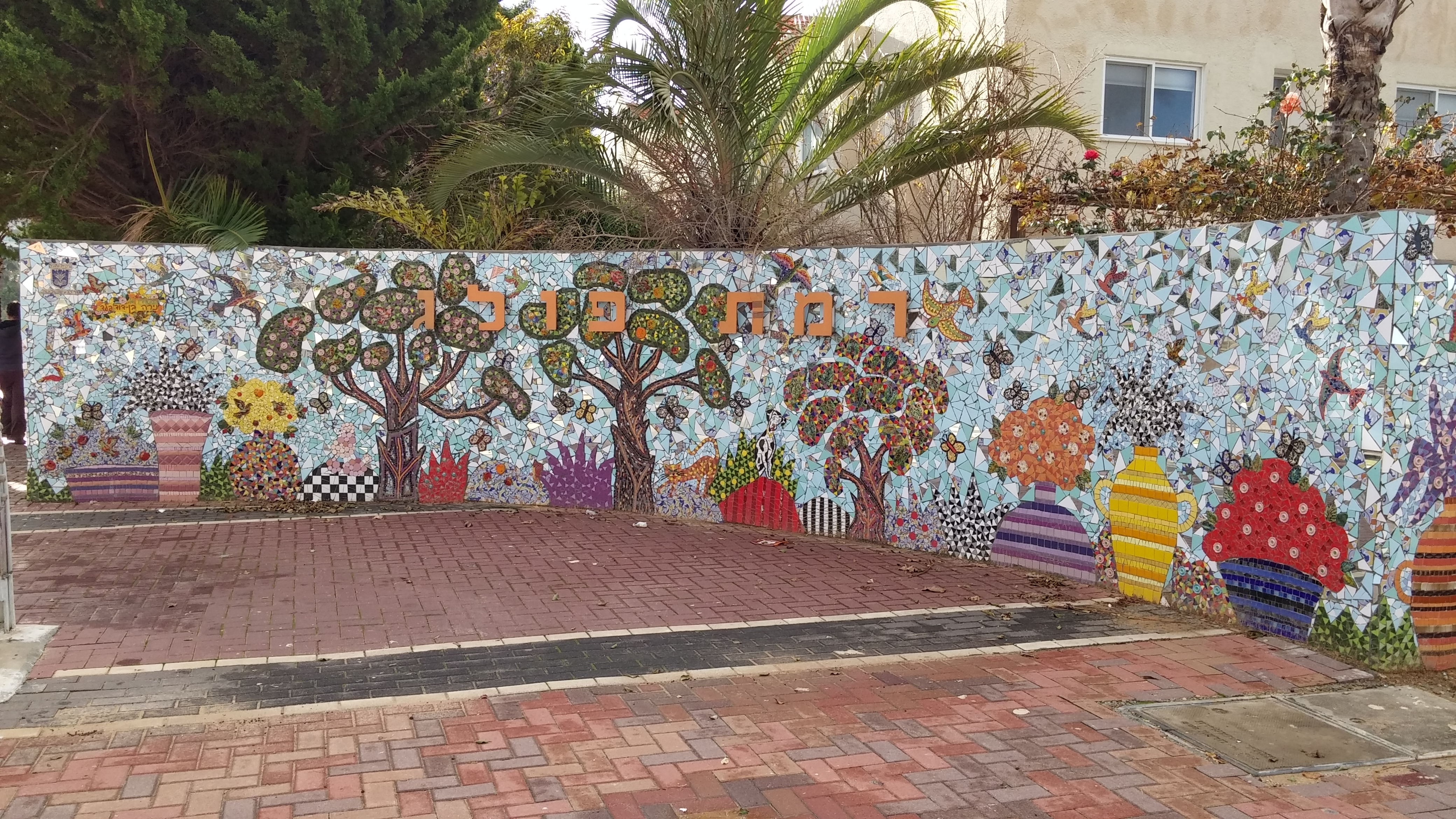 Ramat Poleg entrance